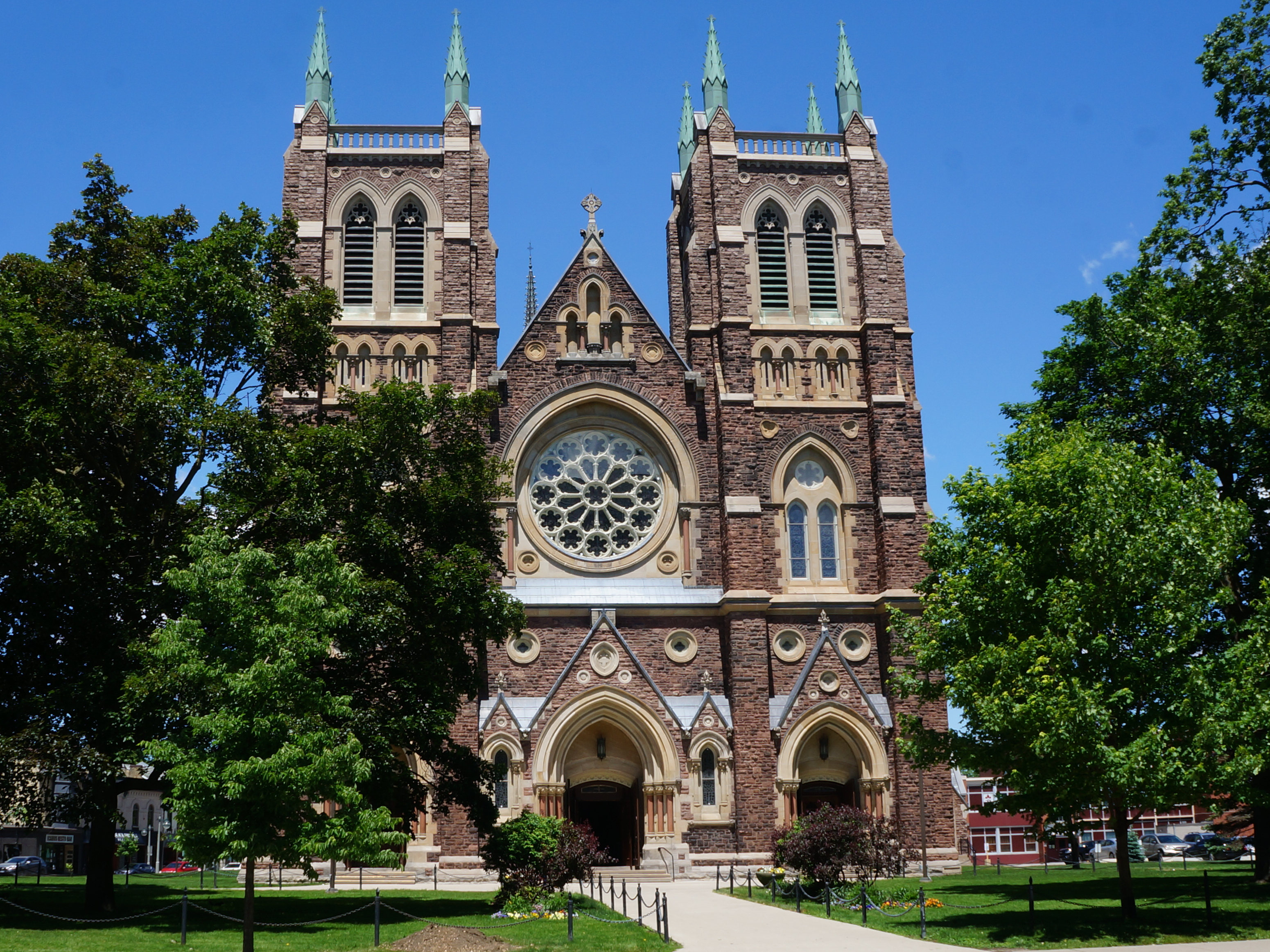 Front facade of Saint Peter's Cathedral Basilica, London Ontario